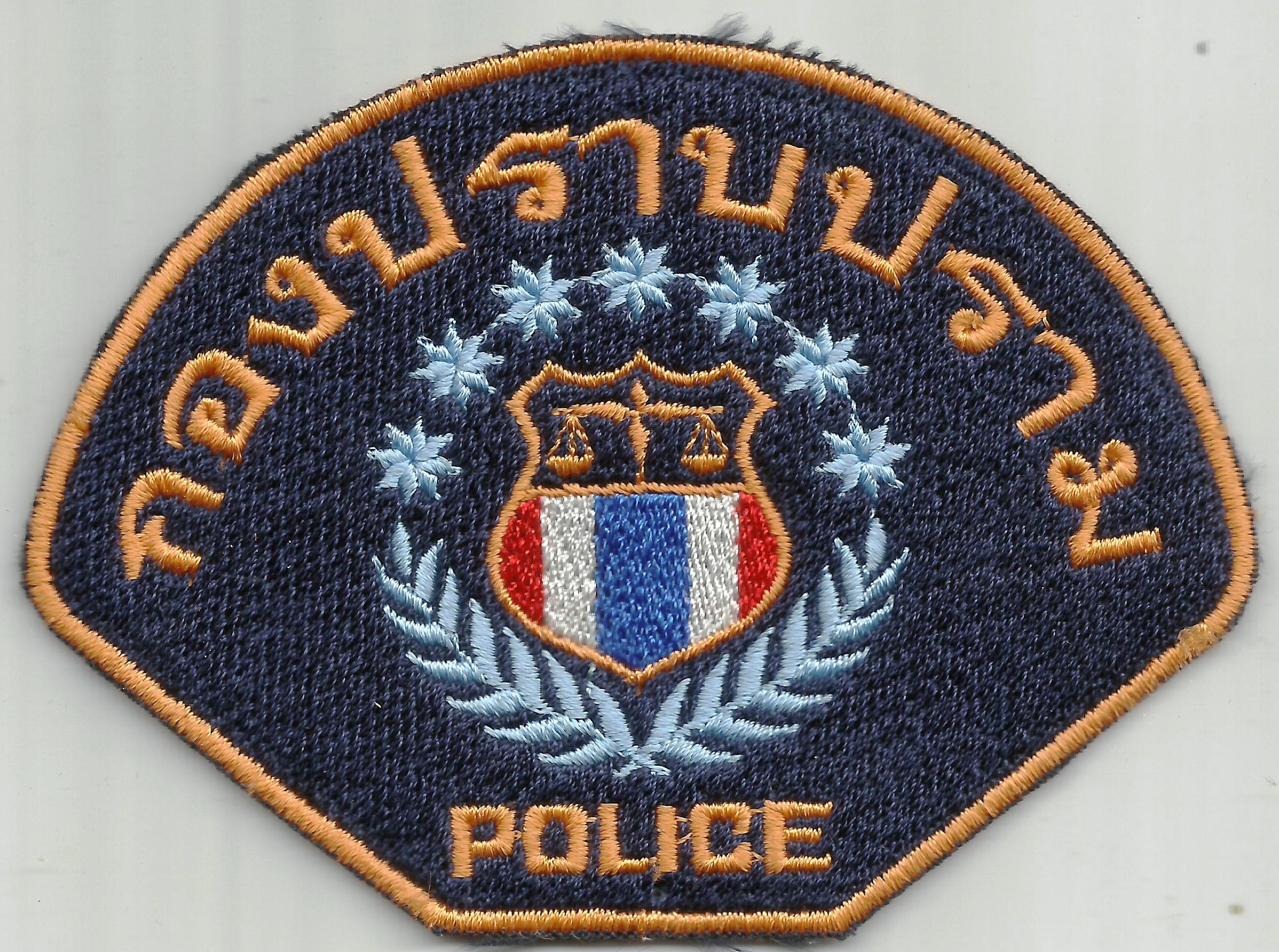 Crime Suppression Division patch